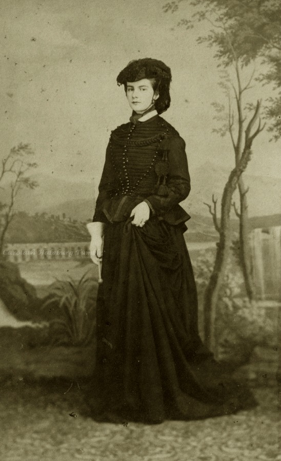 Queen Maria Sofia of the two Sicilies, neé Duchess in Bavaria, in riding habits